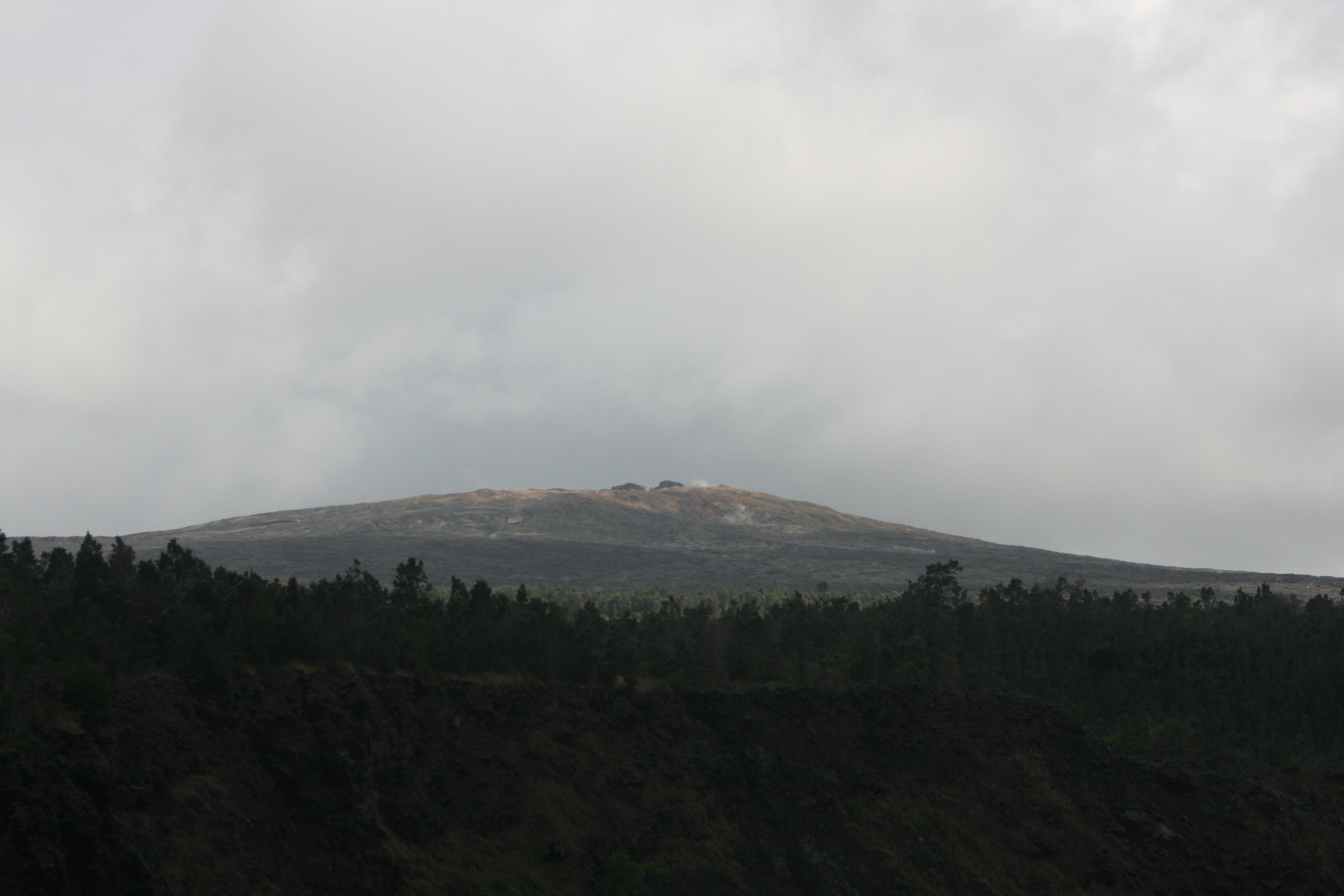 Mauna Ulu lava shield of Kilauea shield volcano on Hawaii.